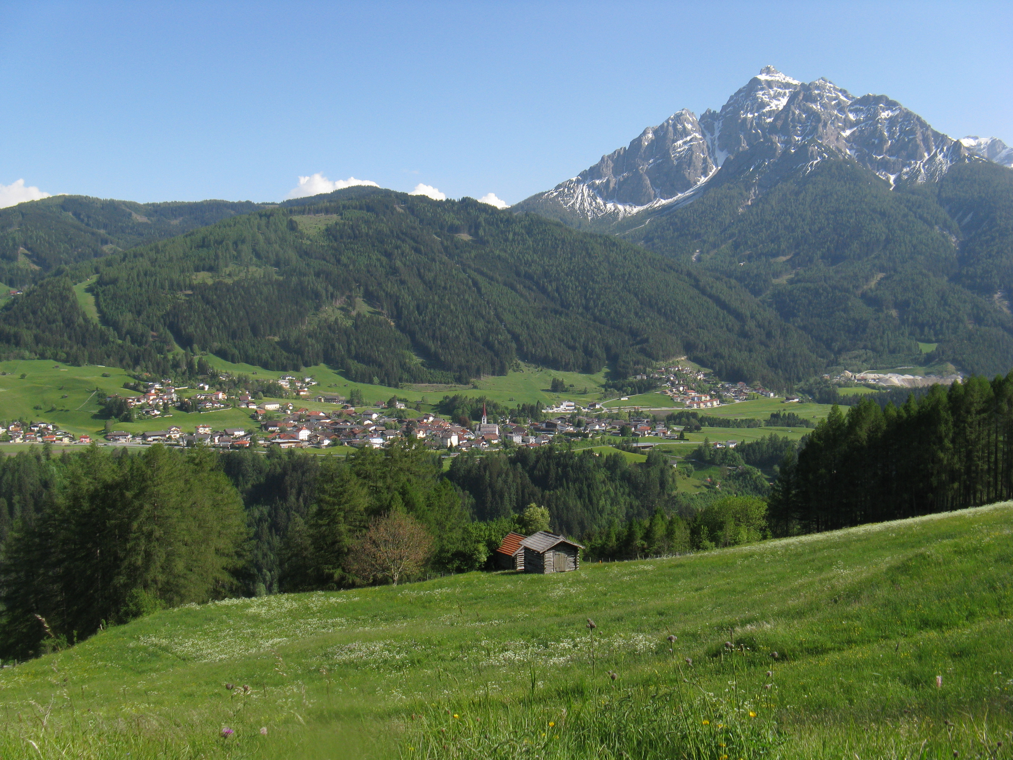 view of Mieders village with Serles in the background, in Stubai Valley, Tyrol, Austria